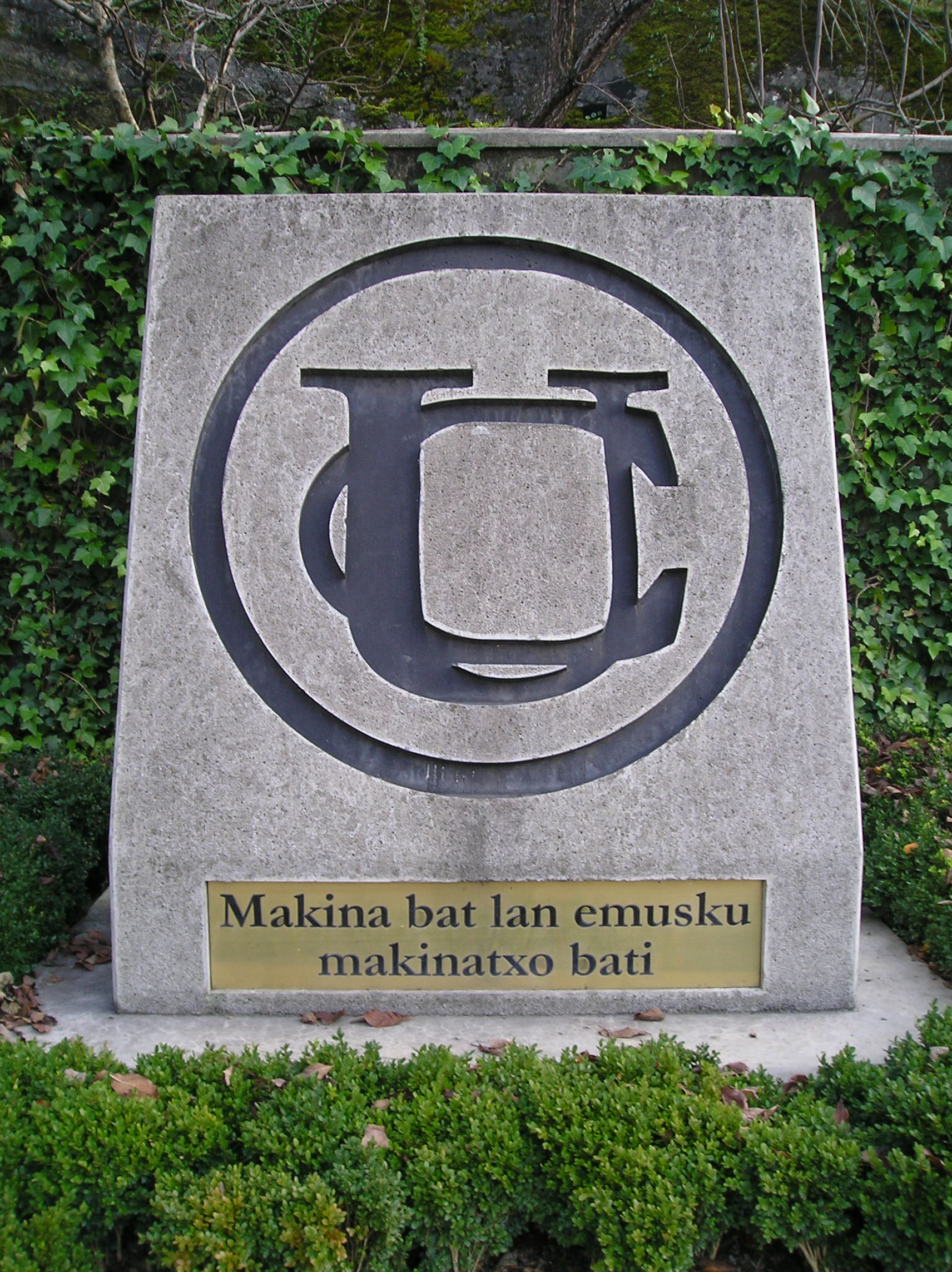 A rock remembering Unión Cerrajera, an important company in Arrasate